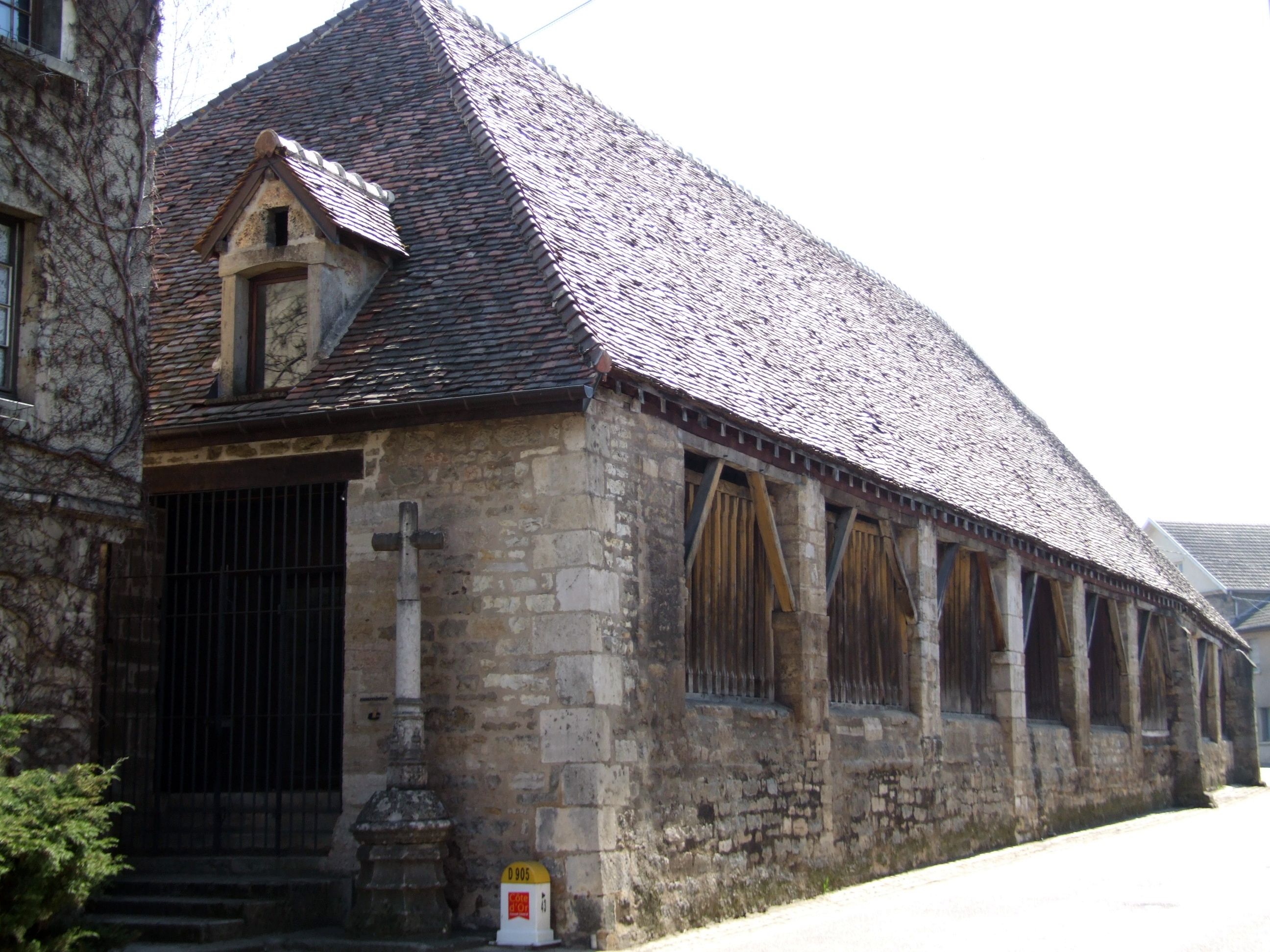 Vitteaux, Burgundy, FRANCE